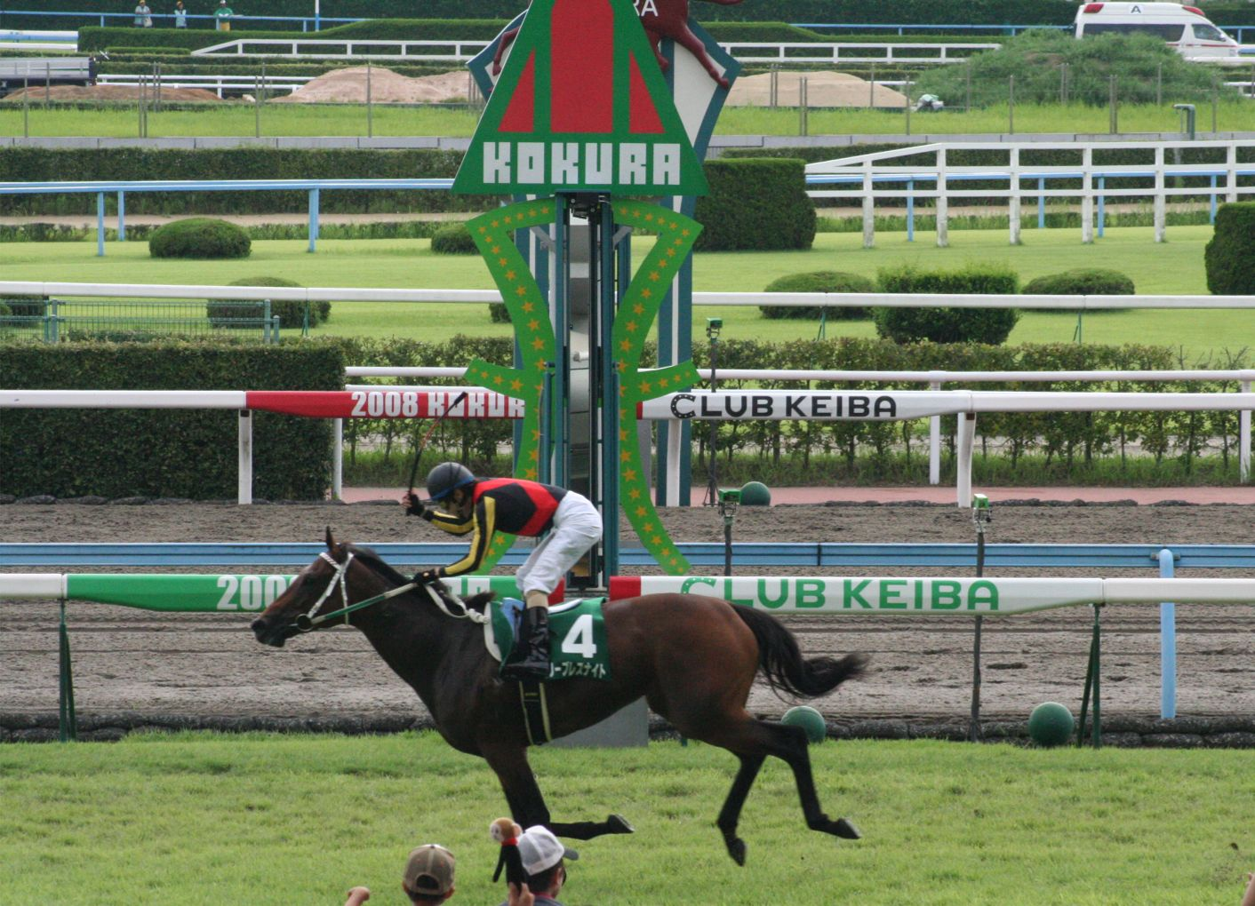 The 43rd Kitakyushu Kinen